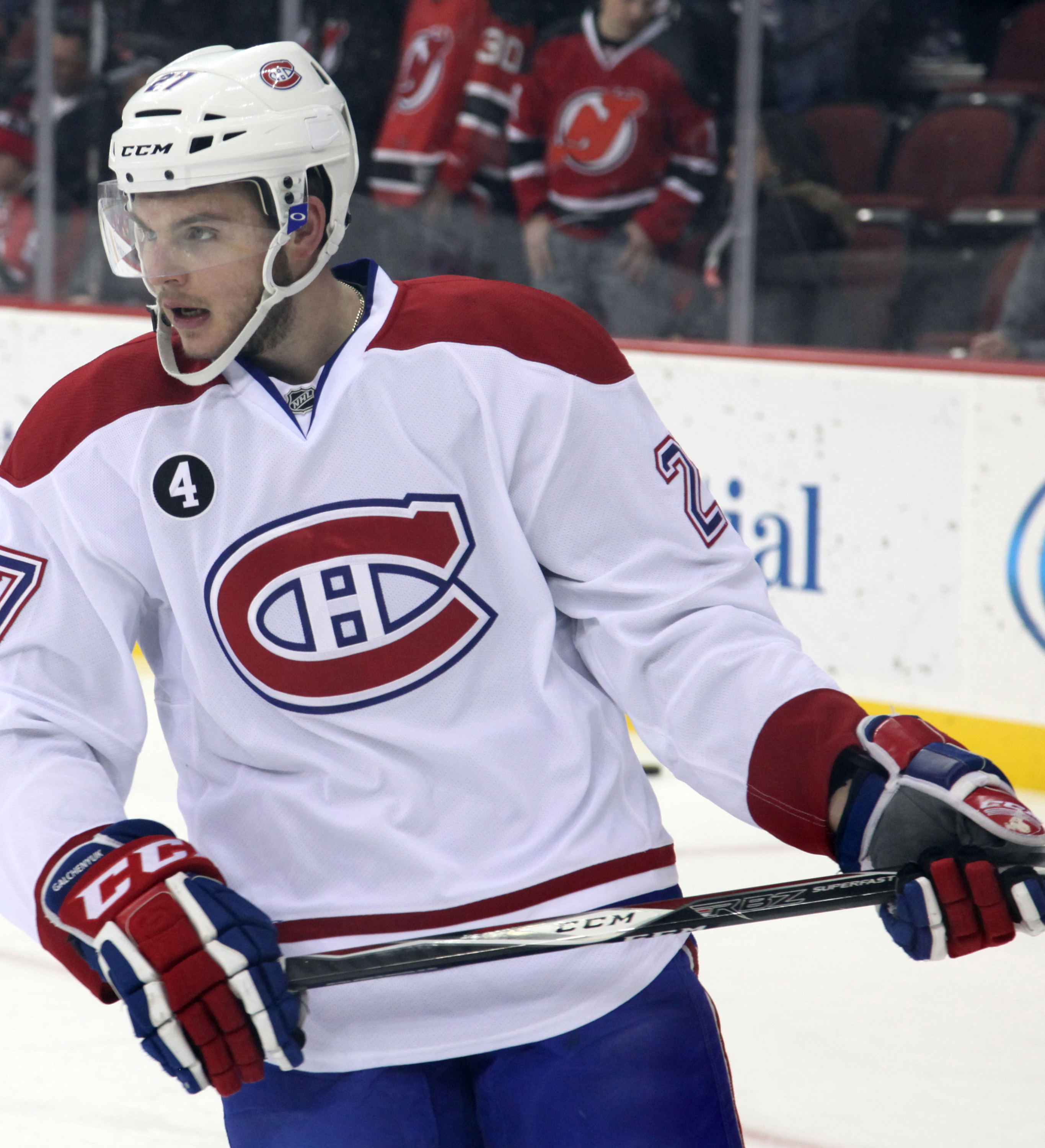 Alex Galchenyuk in January 2015.